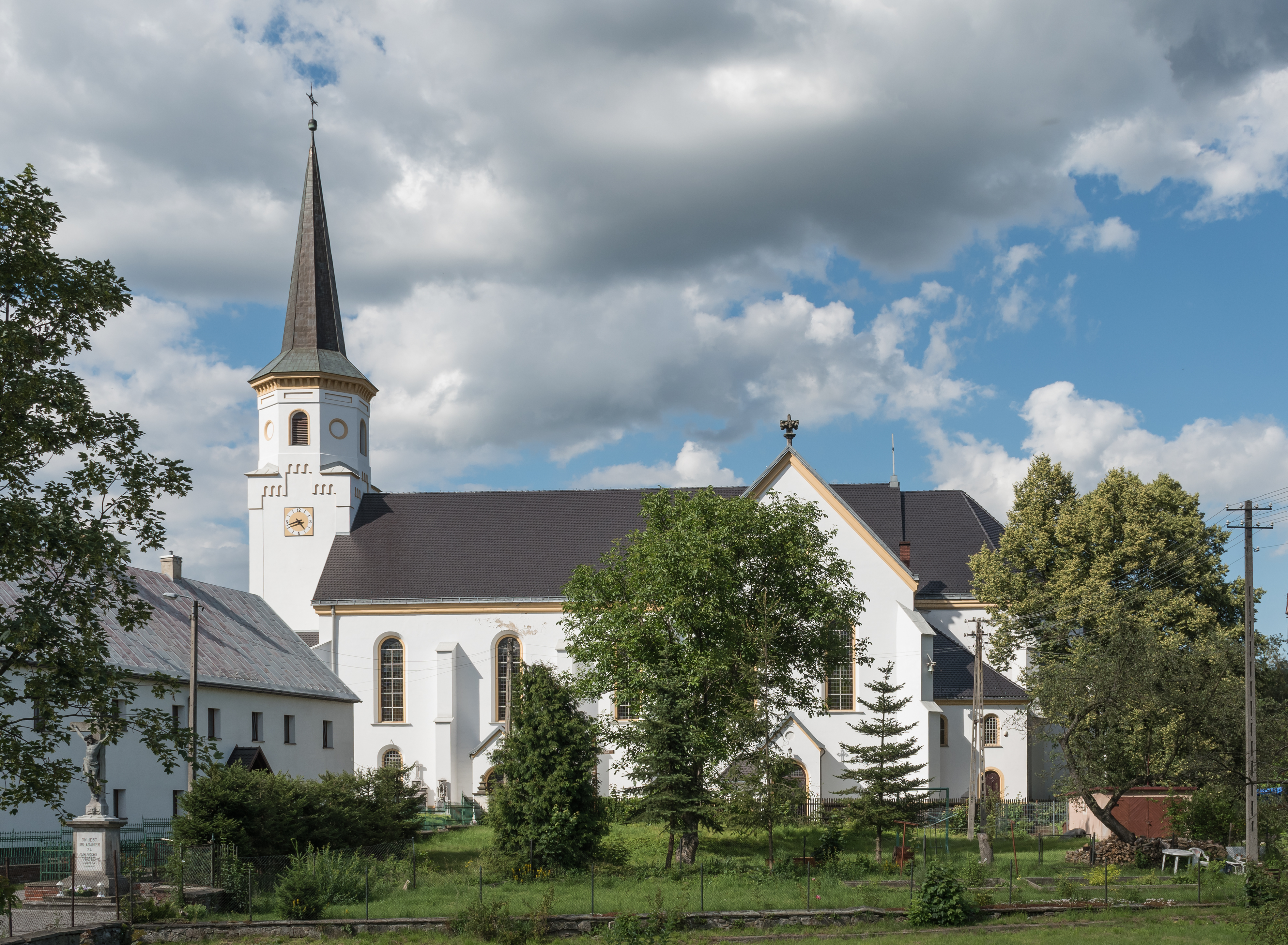 Church of Saint John the Baptist in Ołdrzychowice Kłodzkie